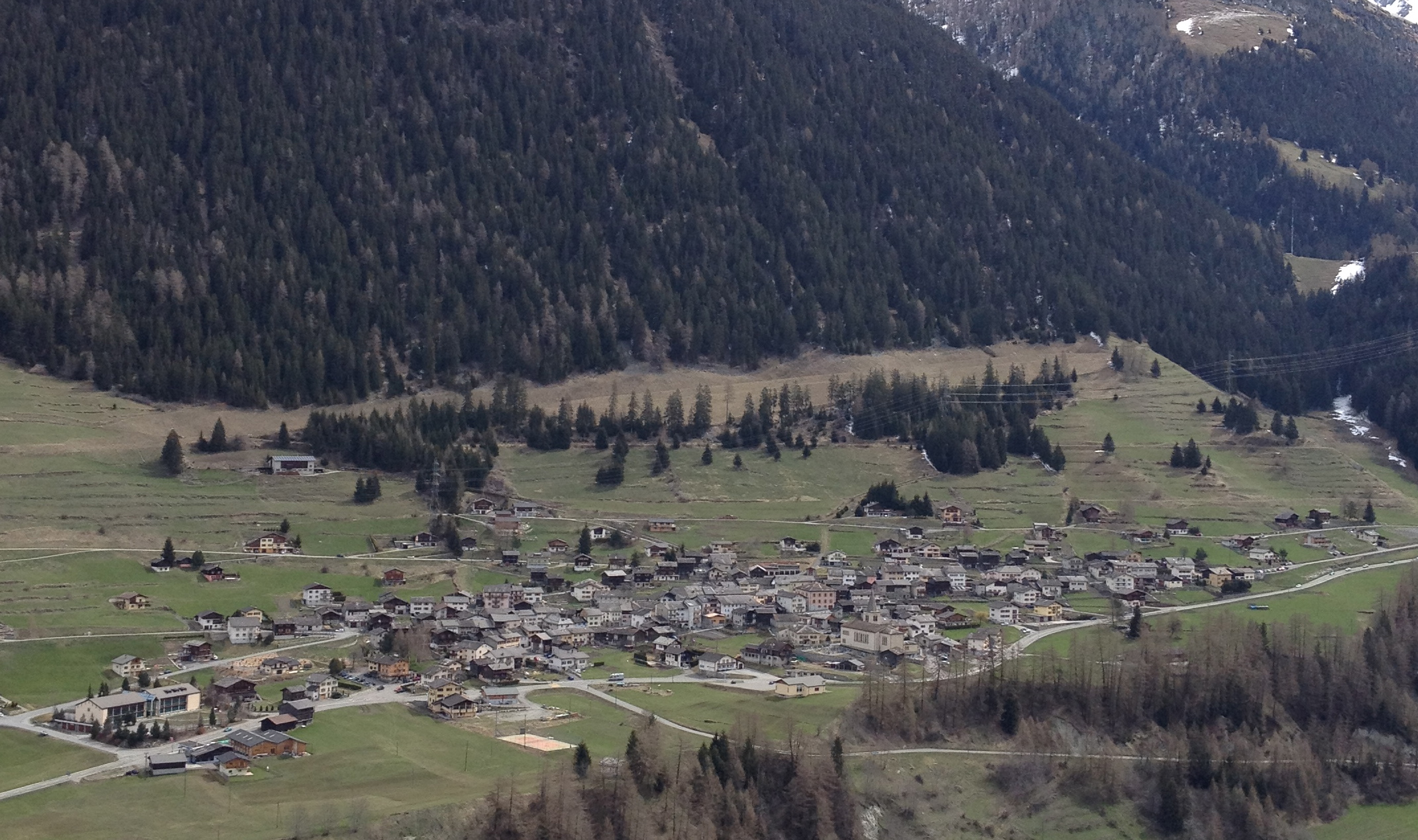 The village of Liddes. Shot taken from the Roc de Cornet.